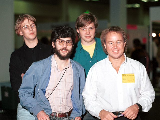 Fred Fish at an Amiga show in Cologne, (front row right). To Fred's right is Matt Dillon, an Amiga software author.